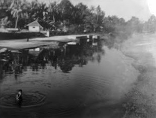 Chertala 1960